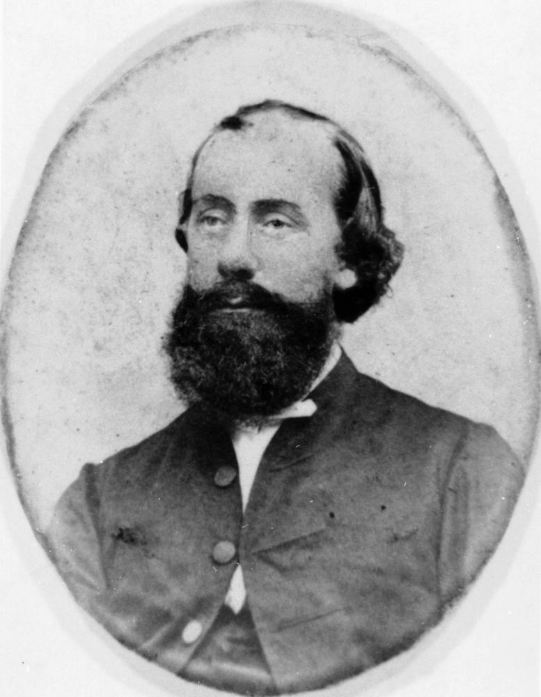 Sir Charles Lilley Photograph taken on Sir Charles Lilley's wedding day. He married Sarah Jane Jeays in 1858. He later became Chief Justice of Queensland.